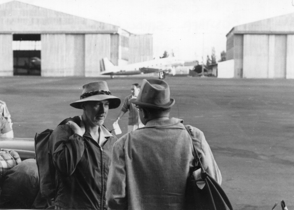 J. Desmond Clark talking with a colleague at an airport near Dakar, Senegal (West Africa)